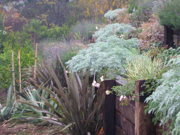 A drought-resistant garden designed by Renee Gunter